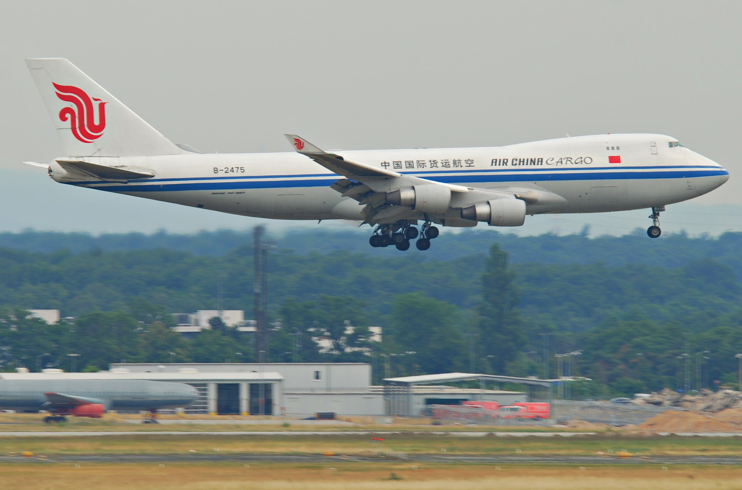 Air China Cargo Boeing 747-400; B-2475@FRA;09.07.2010/581mh